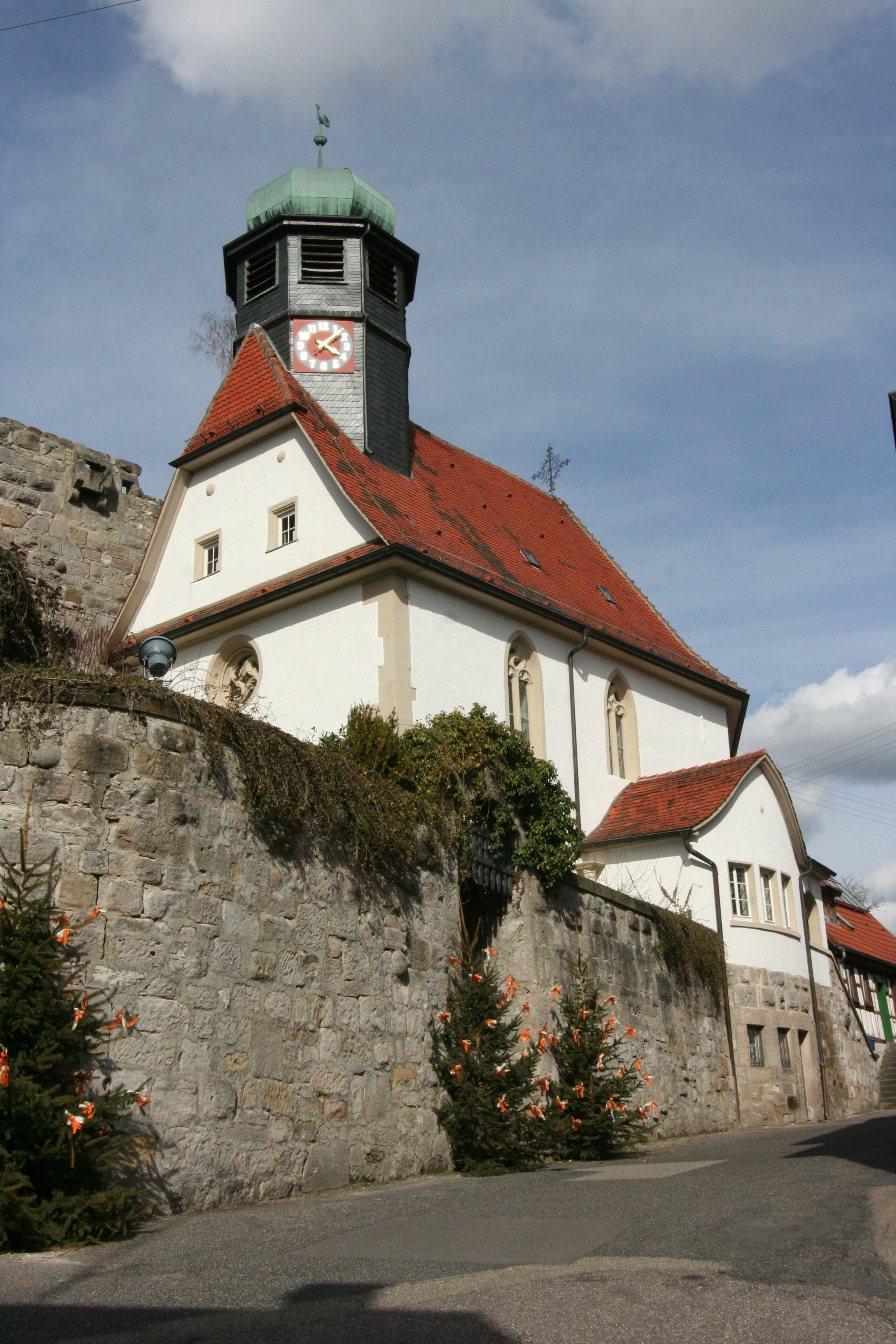 Protestant church in Wüstenrot-Maienfels